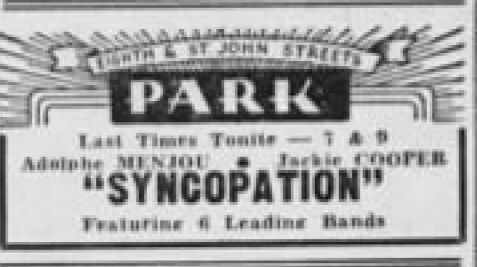 Park Theater advertisement for the American film Syncopation (1942) - 6 Nov. 1942 Morning Call, Allentown PA